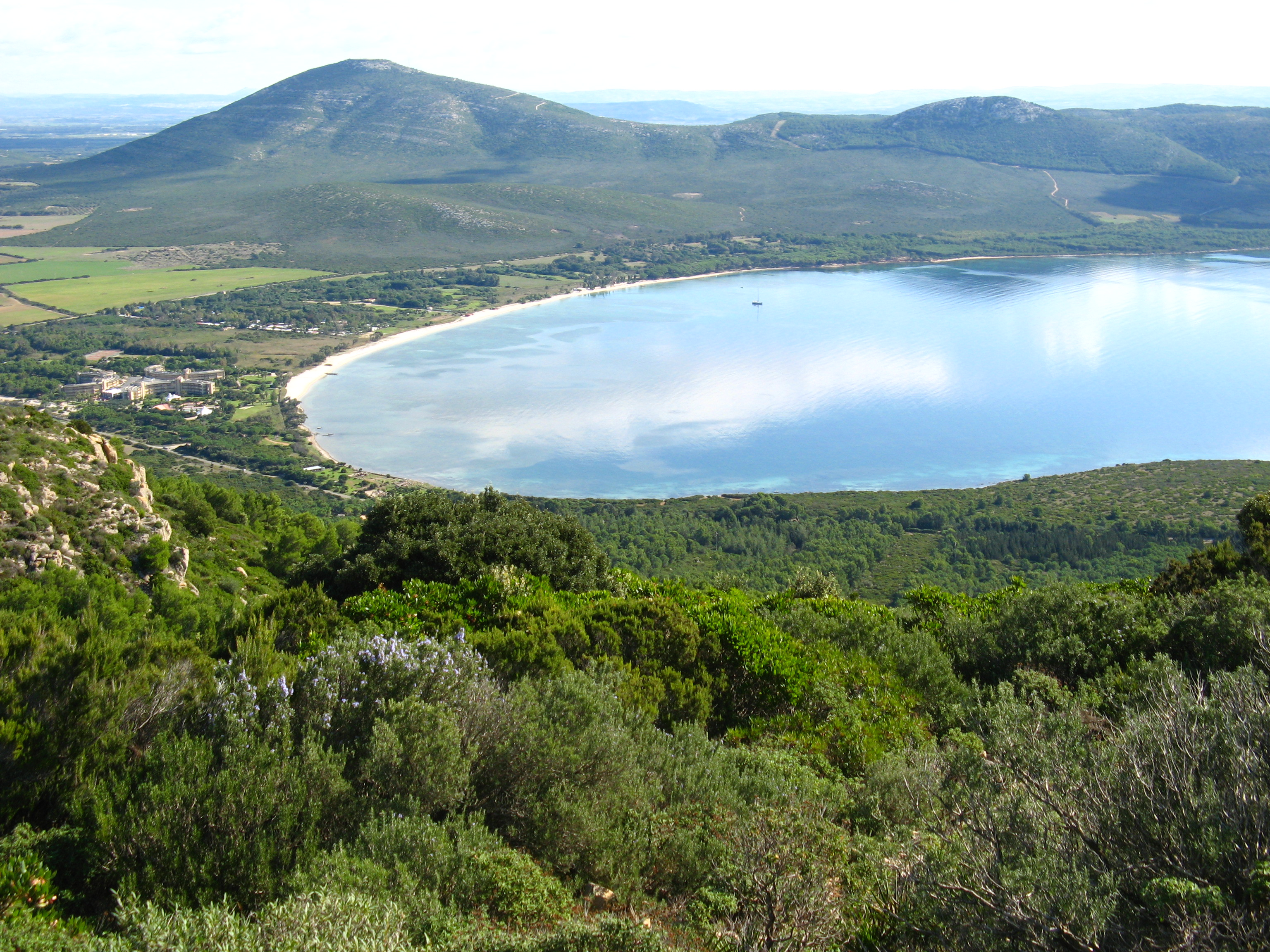 Porto Conte Beach (Sardinia)